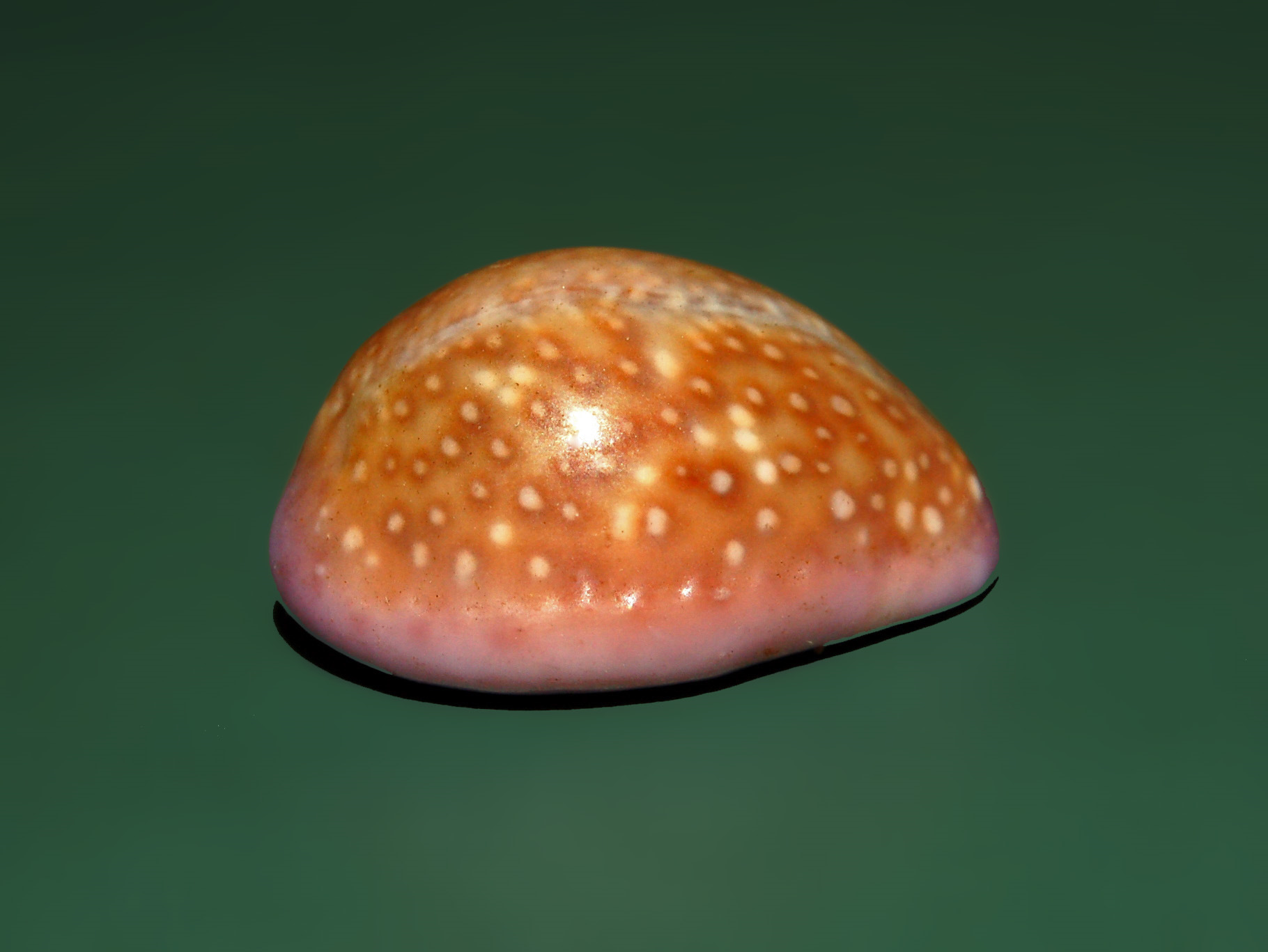 Naria poraria